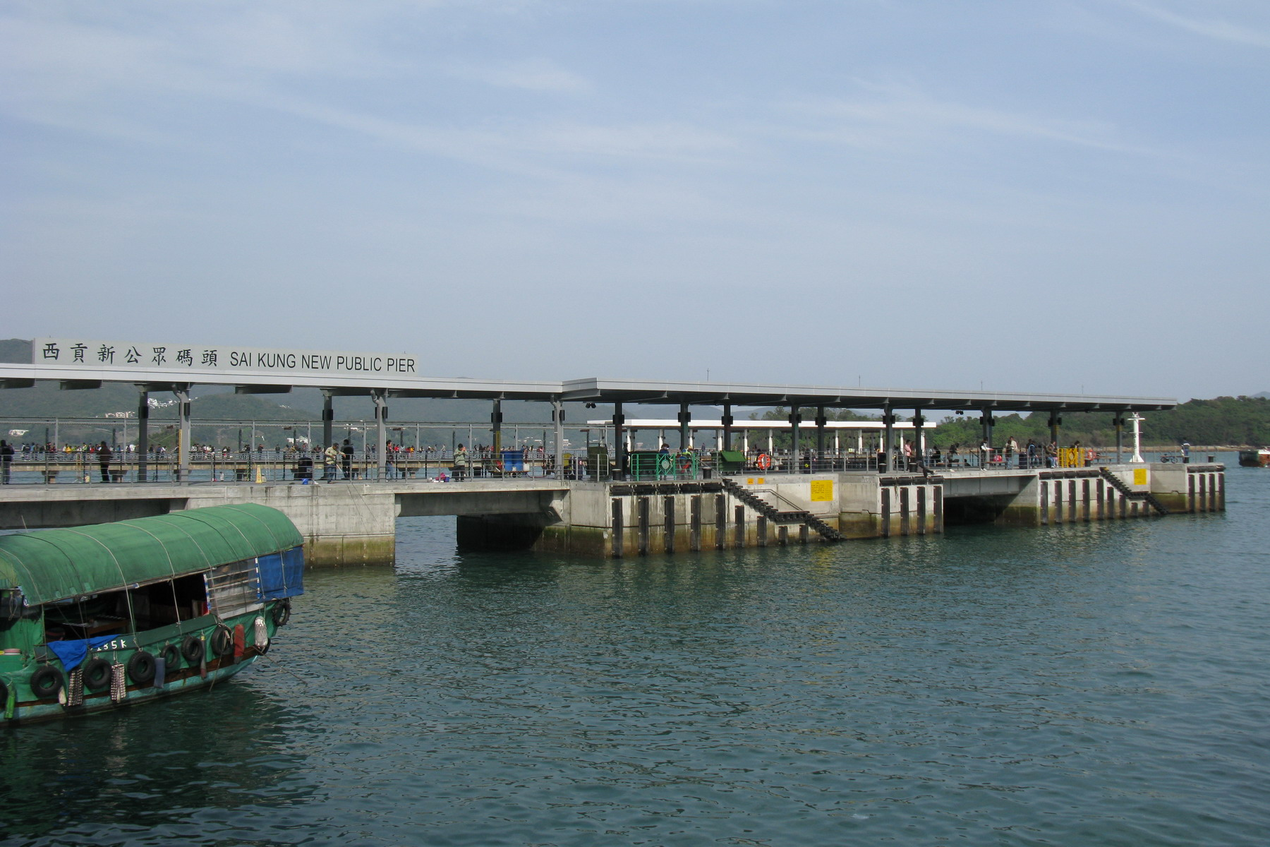 Sai Kung New Public Pier